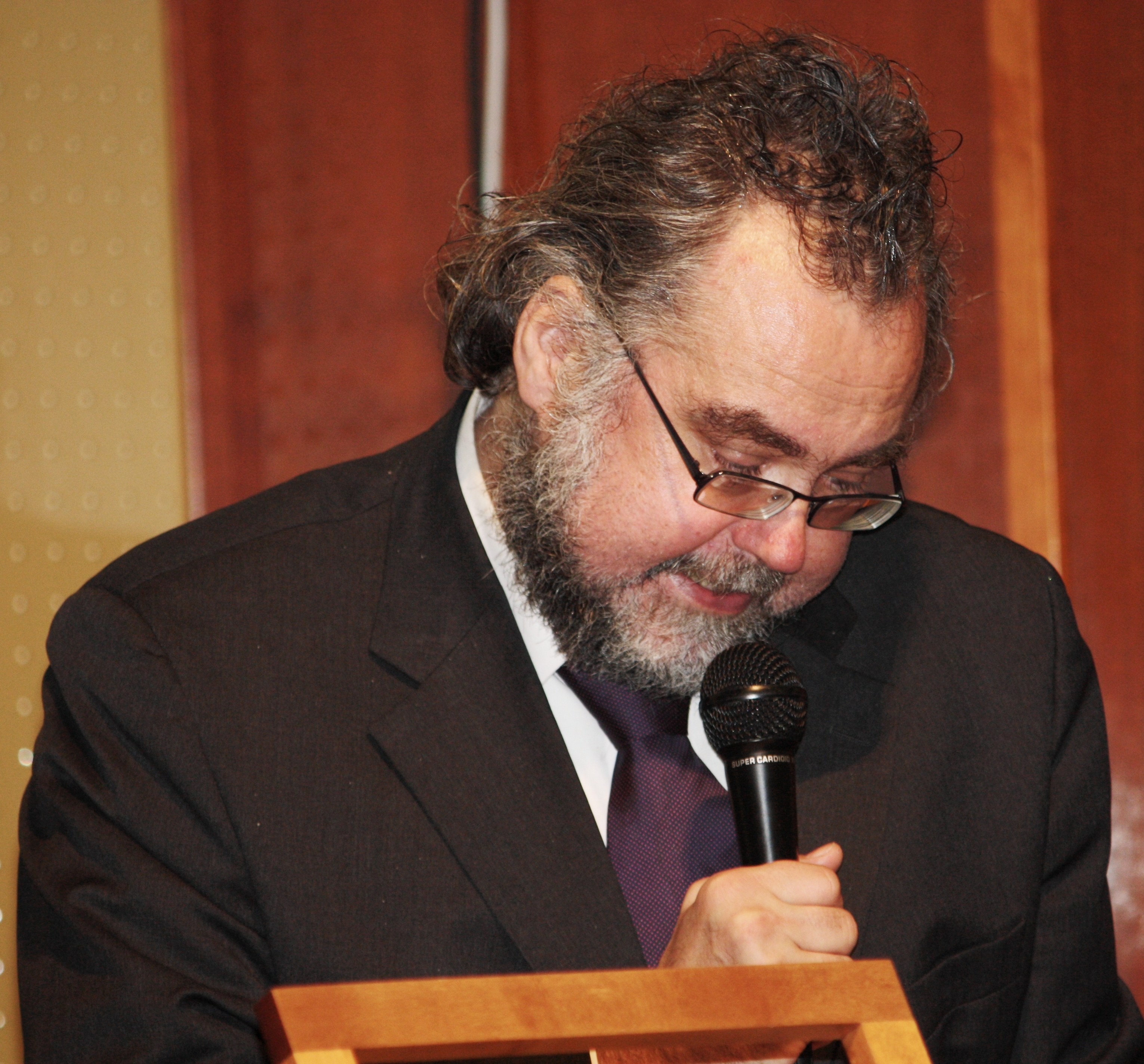 Finnish journalist and translator Jari Aula at the Helsinki Book Fair 2010.